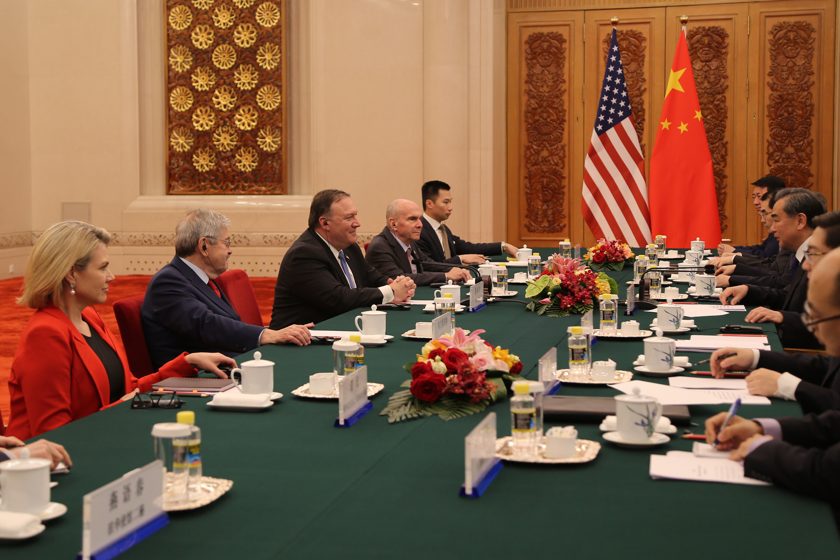 U.S. Secretary of State Mike Pompeo and his delegation participate in a bilateral meeting with Chinese State Councilor and Foreign Minister Wang Yi in Beijing, China on June 14, 2018.